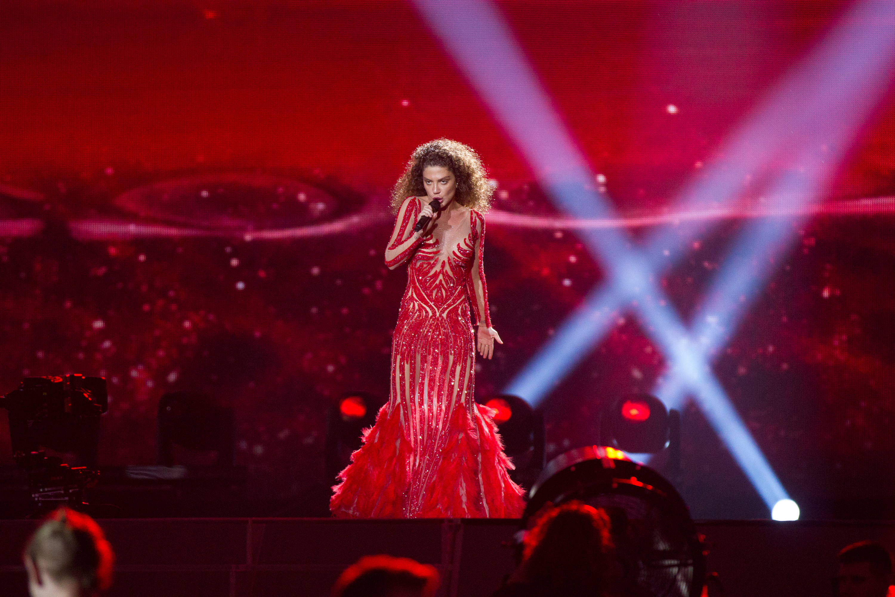 Tamara Gachechiladze performing at Eurovision 2017